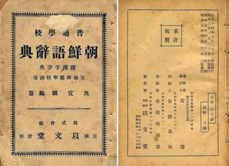 "Korean dictionary" Seoul University of Education，1925